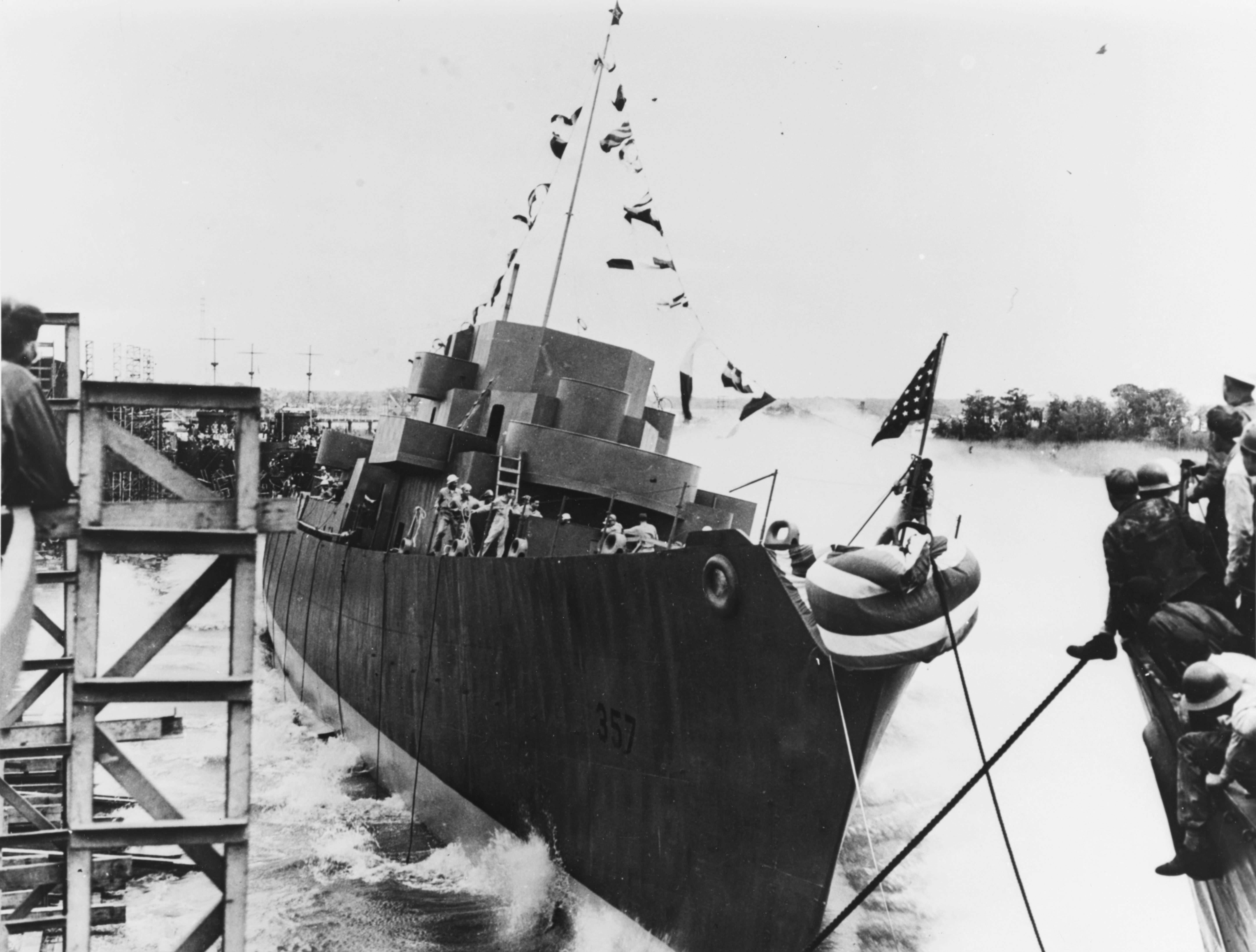 Launch of the U.S. Navy destroyer escort USS George E. Davis (DE-357) at the Consolidated Steel Corporation, Orange, Texas (USA), on 8 April 1944.